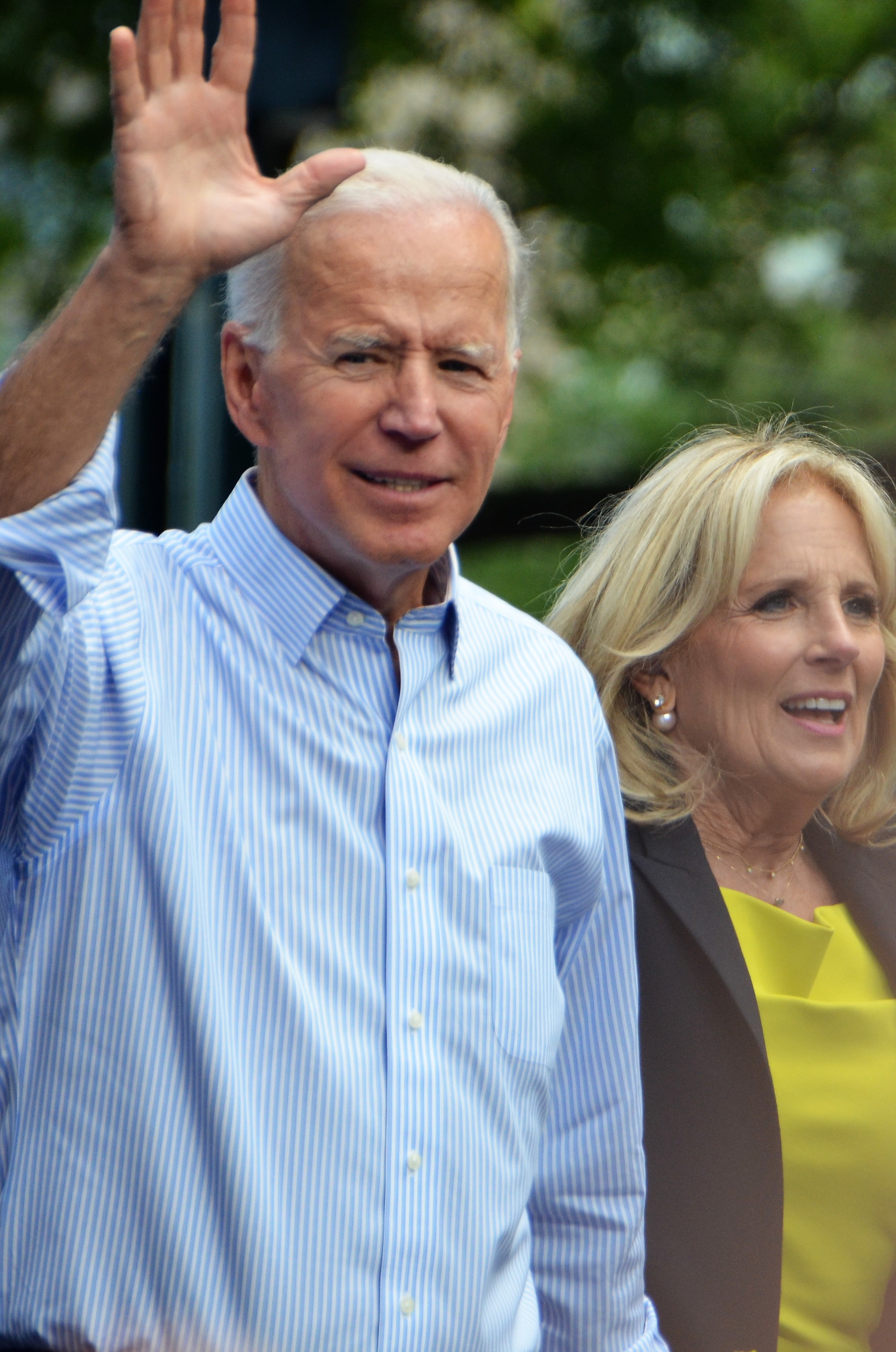 Rally for Joe Biden 2020 Presidential Campaign in Philadelphia